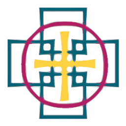 Cross of Swedenborgianism and The New Church